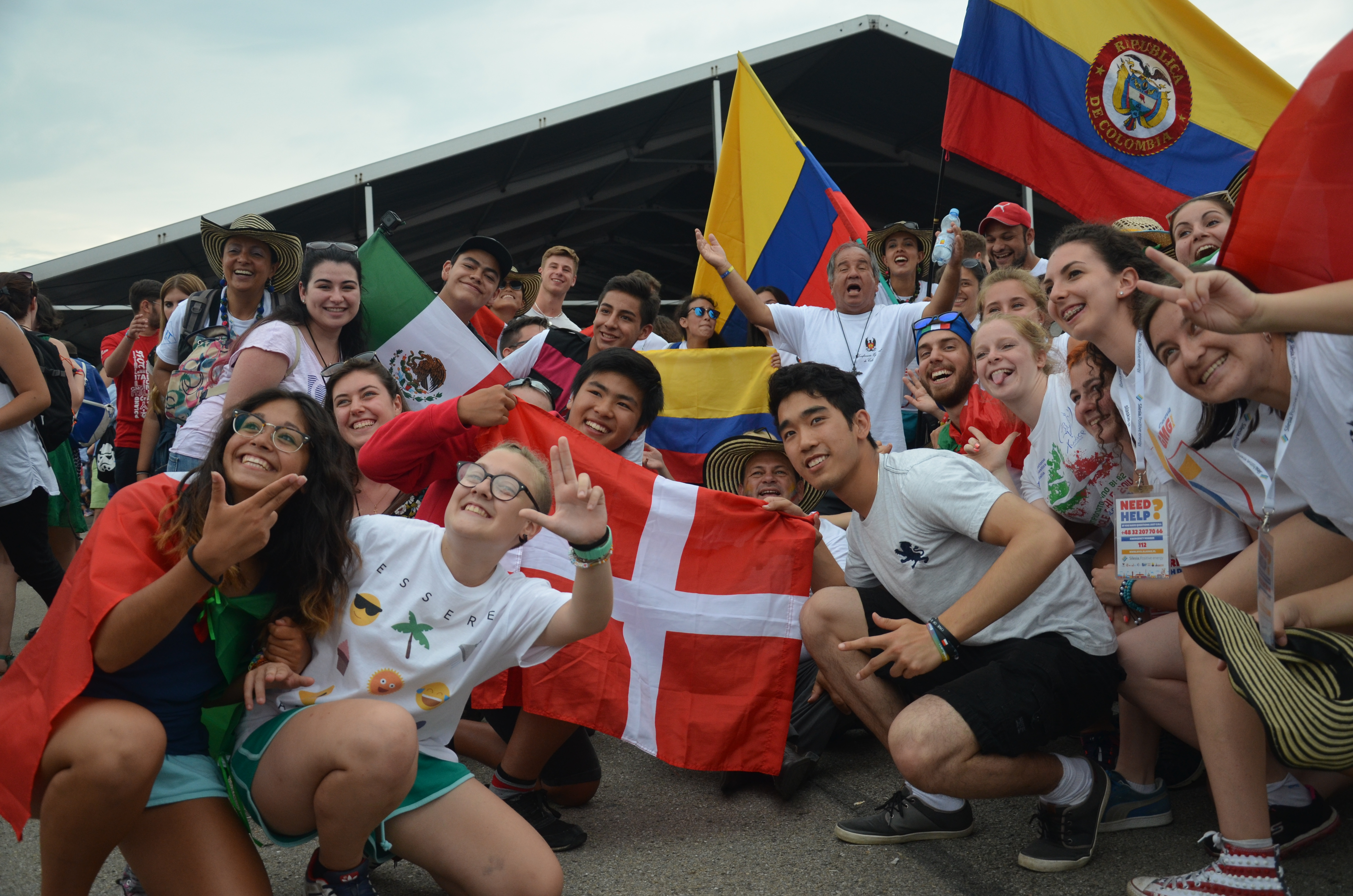 Weltjugendtag 2016 im Bistum Bielitz-Saybusch